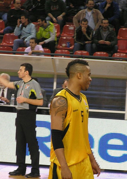 Taurean Green talking to Aaron Miles (Aris) on December 19, 2009